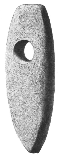 Late battle axe from Gotland, Sweden